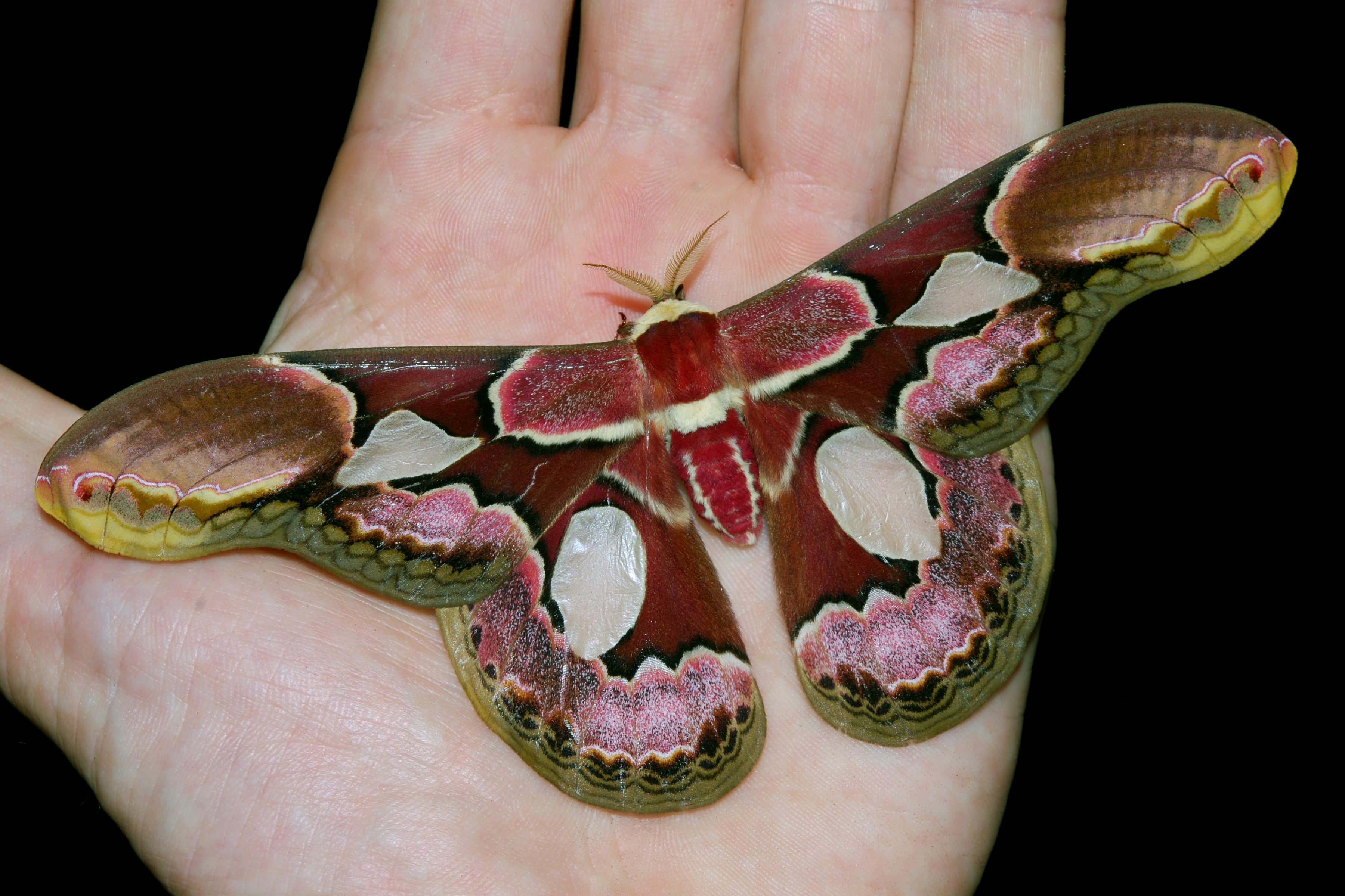 Saturniidae: Rothschildia erycina Seen at Sacha Lodge